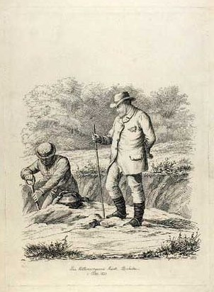 Niels Frederik Bernhard Sehested (1813-1882), Danish nobleman, estate owner, and archaeologist